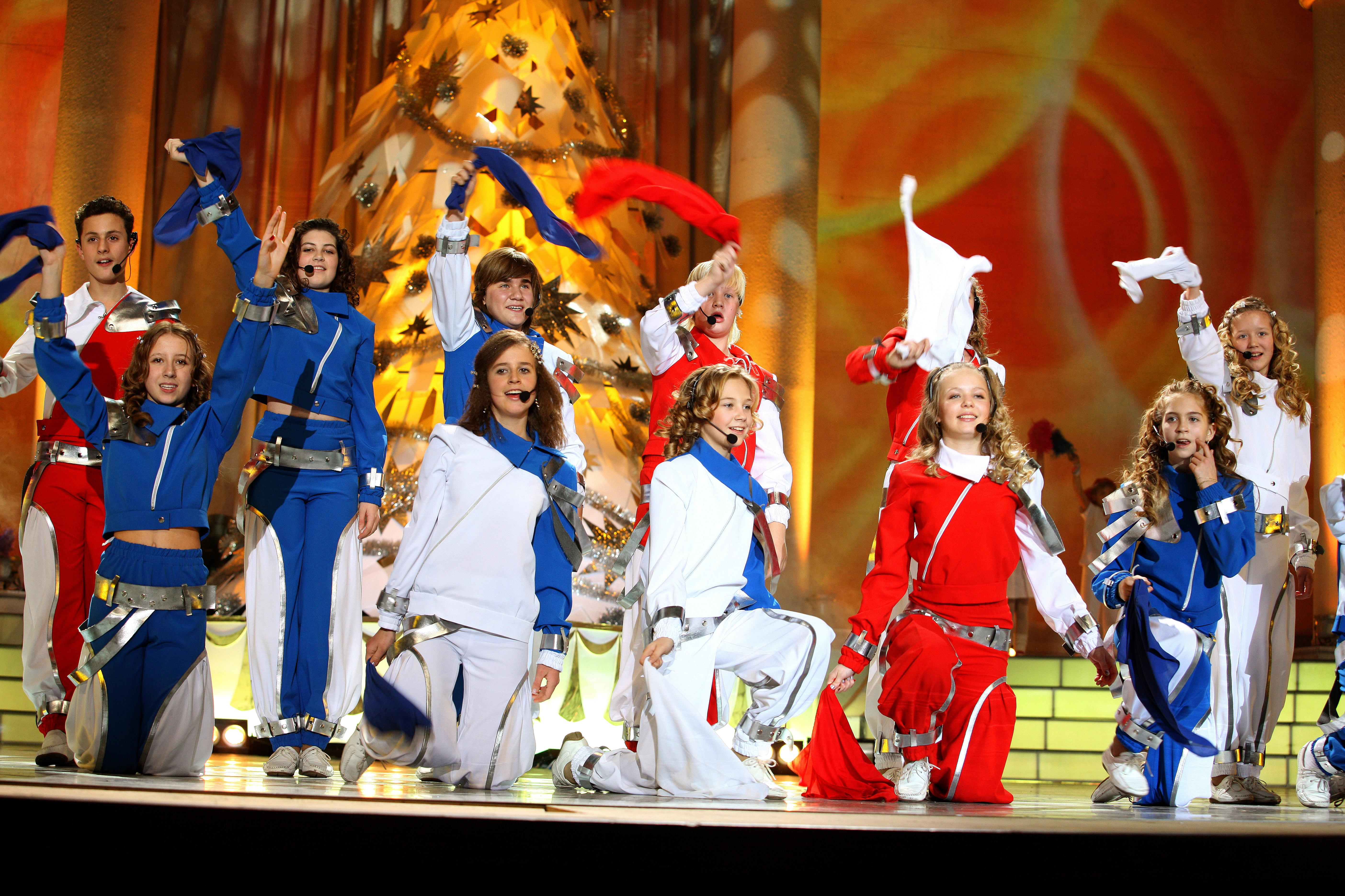 Domisolka